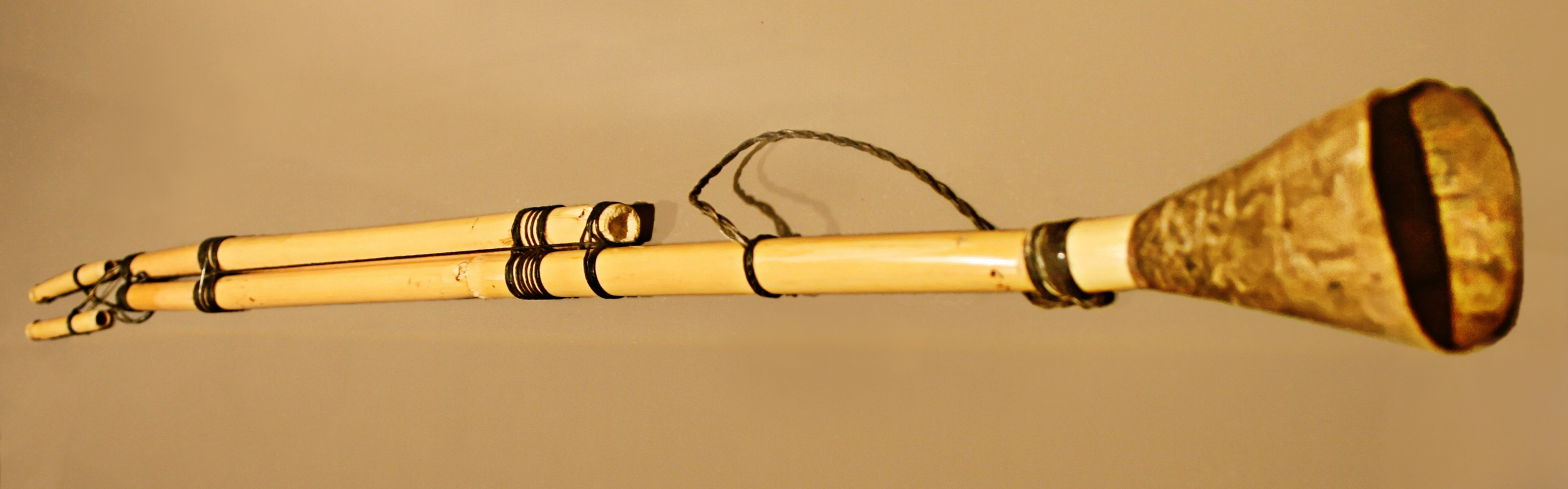 Arghul, Egypt, ca. 1970-1975